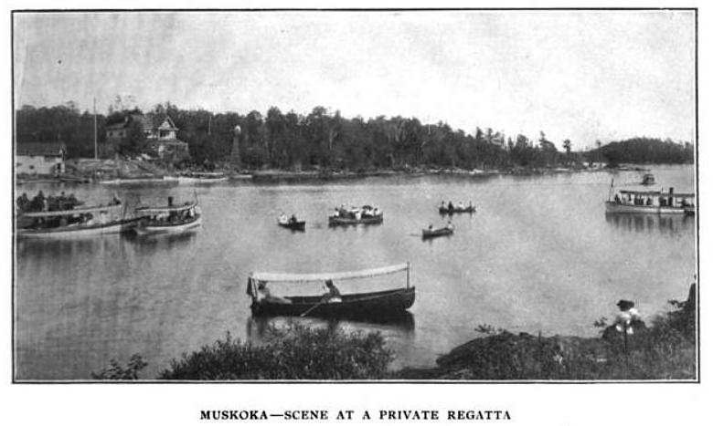 Photograph of Beaumaris (Ontario) harbor during a regatta, 1903